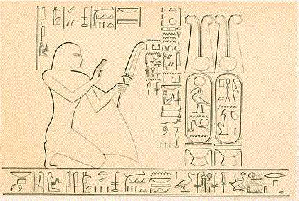 Sety, King's son of Kush at Sehel